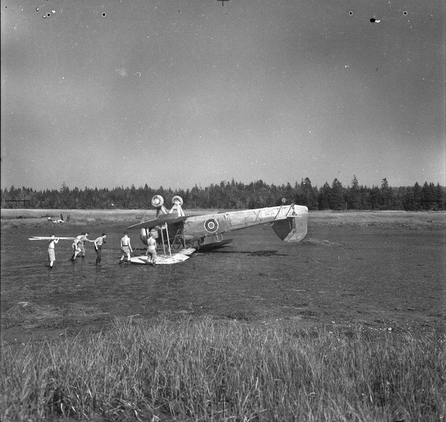 Wreckage of Fairey Swordfish aircraft HS404, the Naval Air Gunnery School, Yarmouth, Nova Scotia, 1943